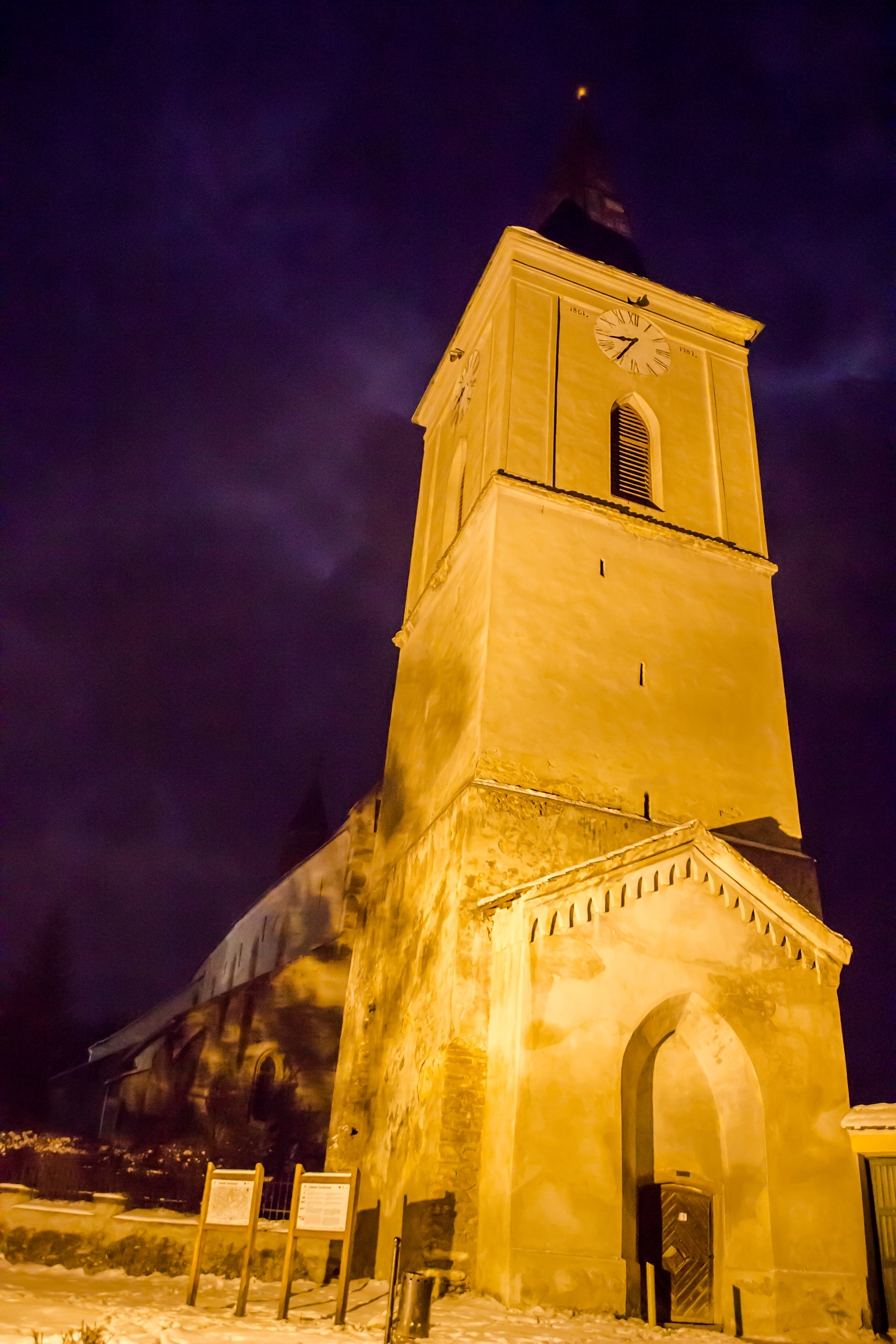 Gate Tower of Richiş fortified church assembly, located in the west of church, used today as a bell tower.